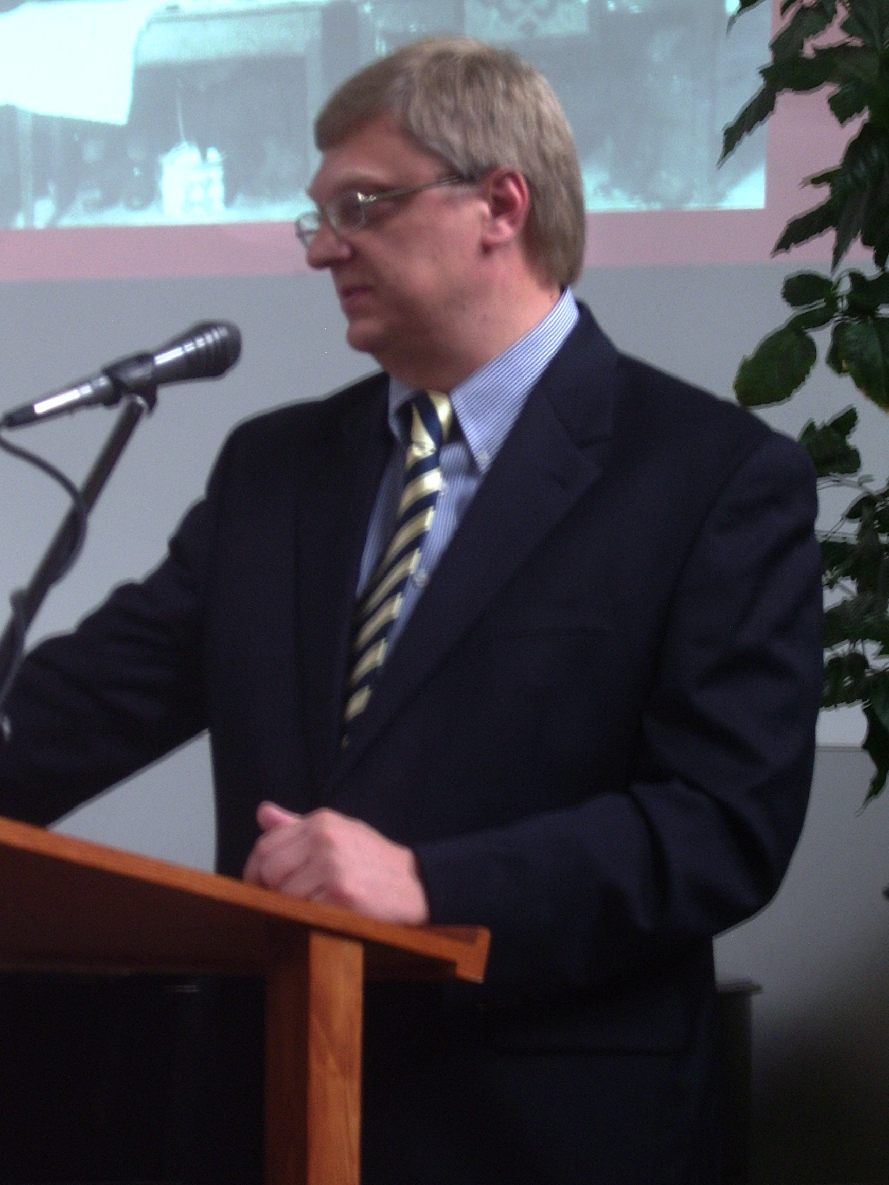 Toivo Pilli (born 1962) is Estonian baptist cleric.